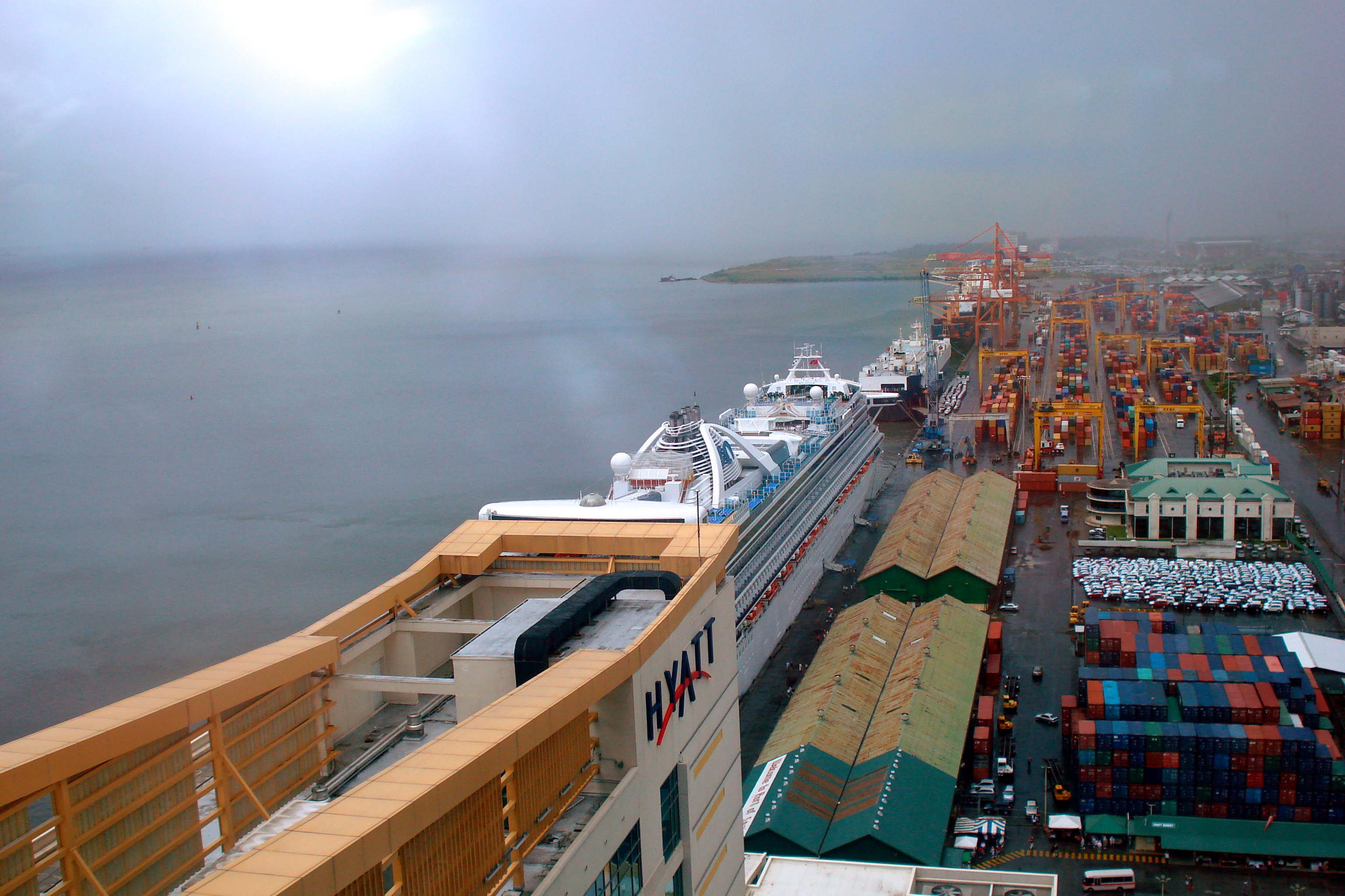 Ships parked along the wharf in Port of Spain.